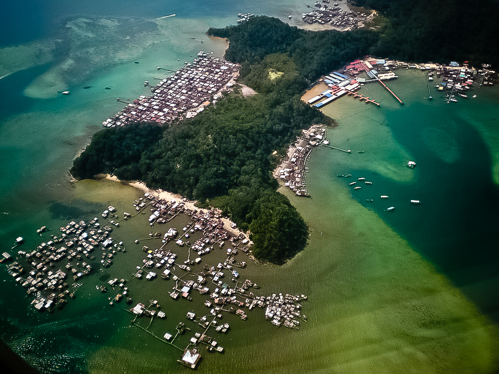 Immigrant dwellings off Pulau Gaya, Kota Kinabalu, Sabah, Malaysia